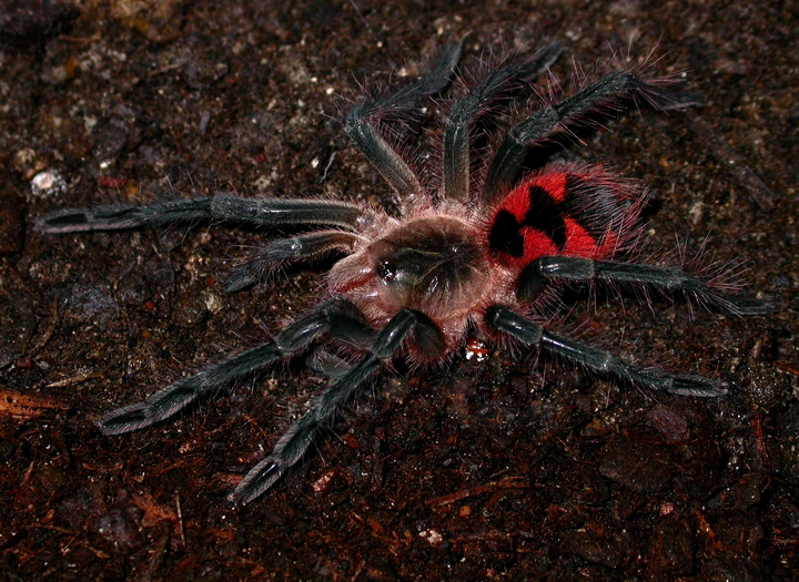 Pamphobeteus nigricolor. The distinctive black/red christmas tree marking is only on spiderlings and juveniles and disappears when the spider gets older.